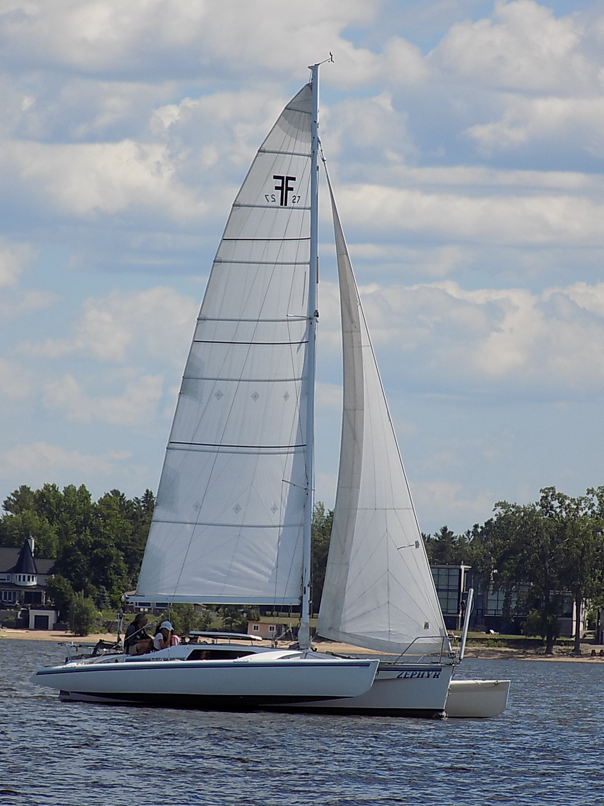 A Corsair F-27 Sport Cruiser trimaran sailboat named Zephyr.